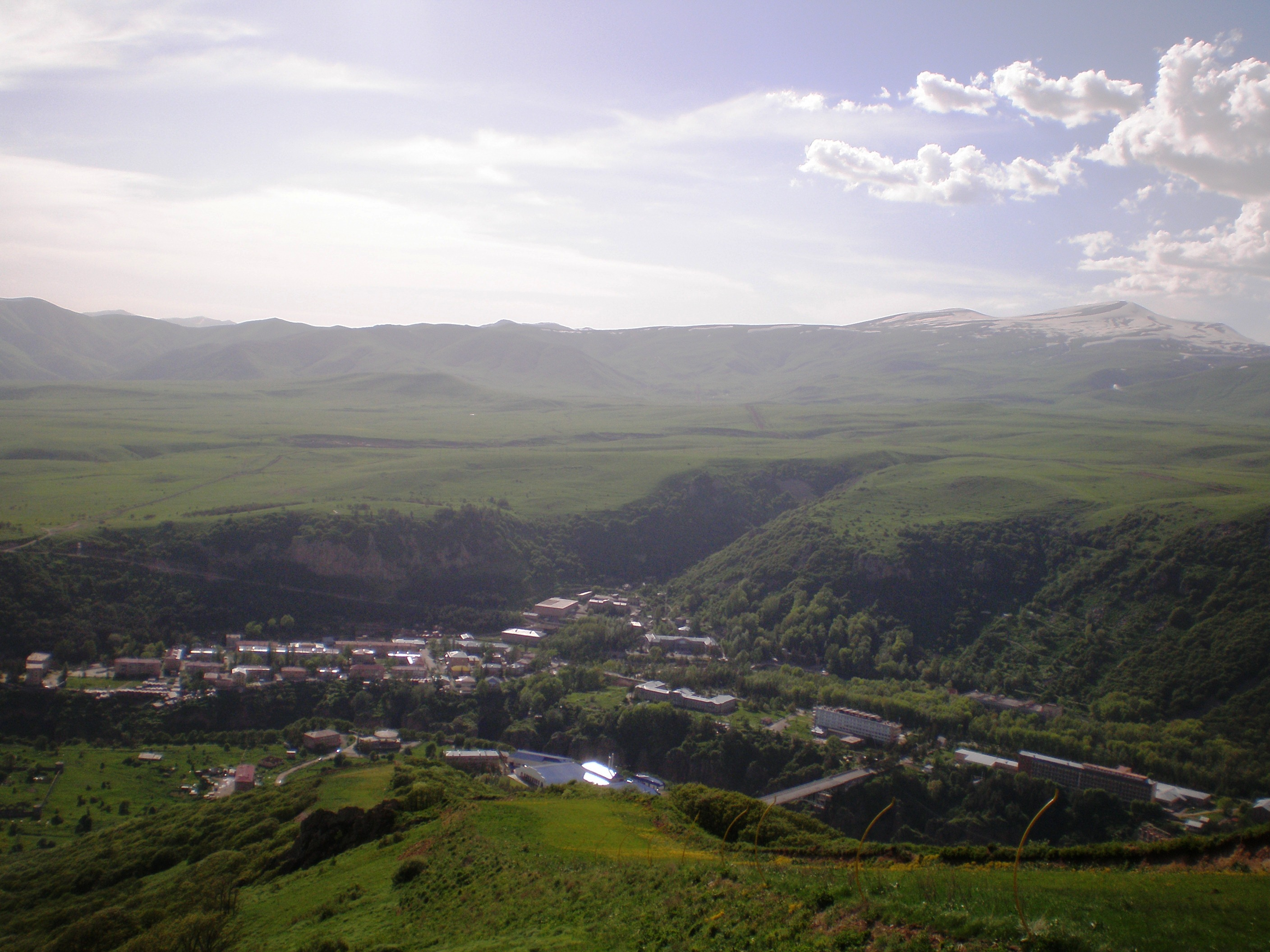 This is a picture from the resort town of Djermuk (Jermuk) in Armenia taken while looking down from an opposing mountain.